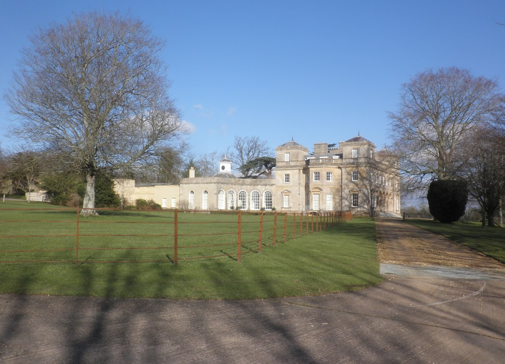 Hatch Court, Hatch Beauchamp, Somerset, England.